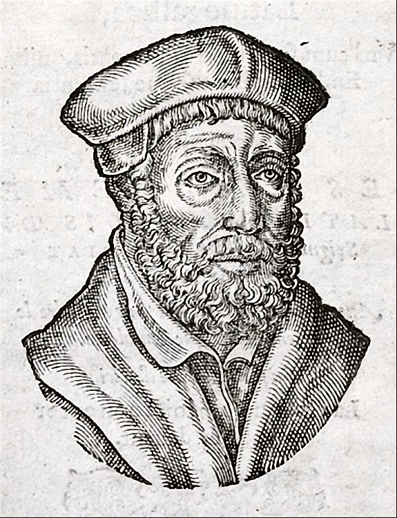 Portrait of the italian jurist and humanistic writer Andrea Alciato (1492-1550). Reproduced from the 1584 edition of his emblem book, originally published in 1531.